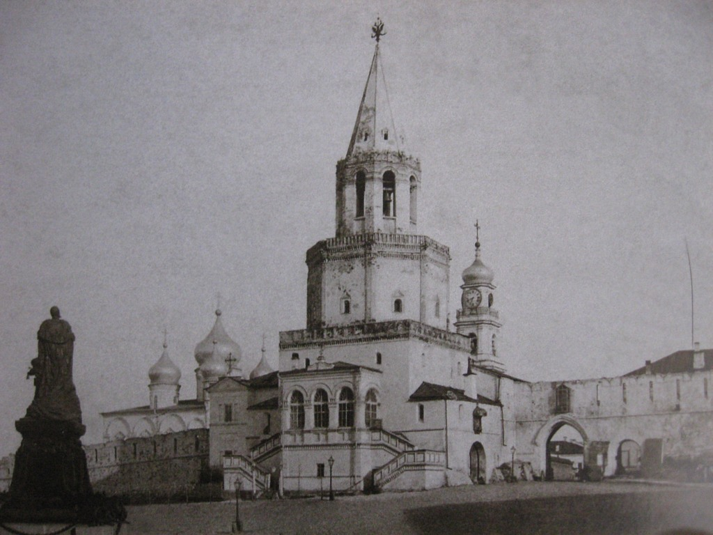 Spasskiy Tower of Kazan Kremlin